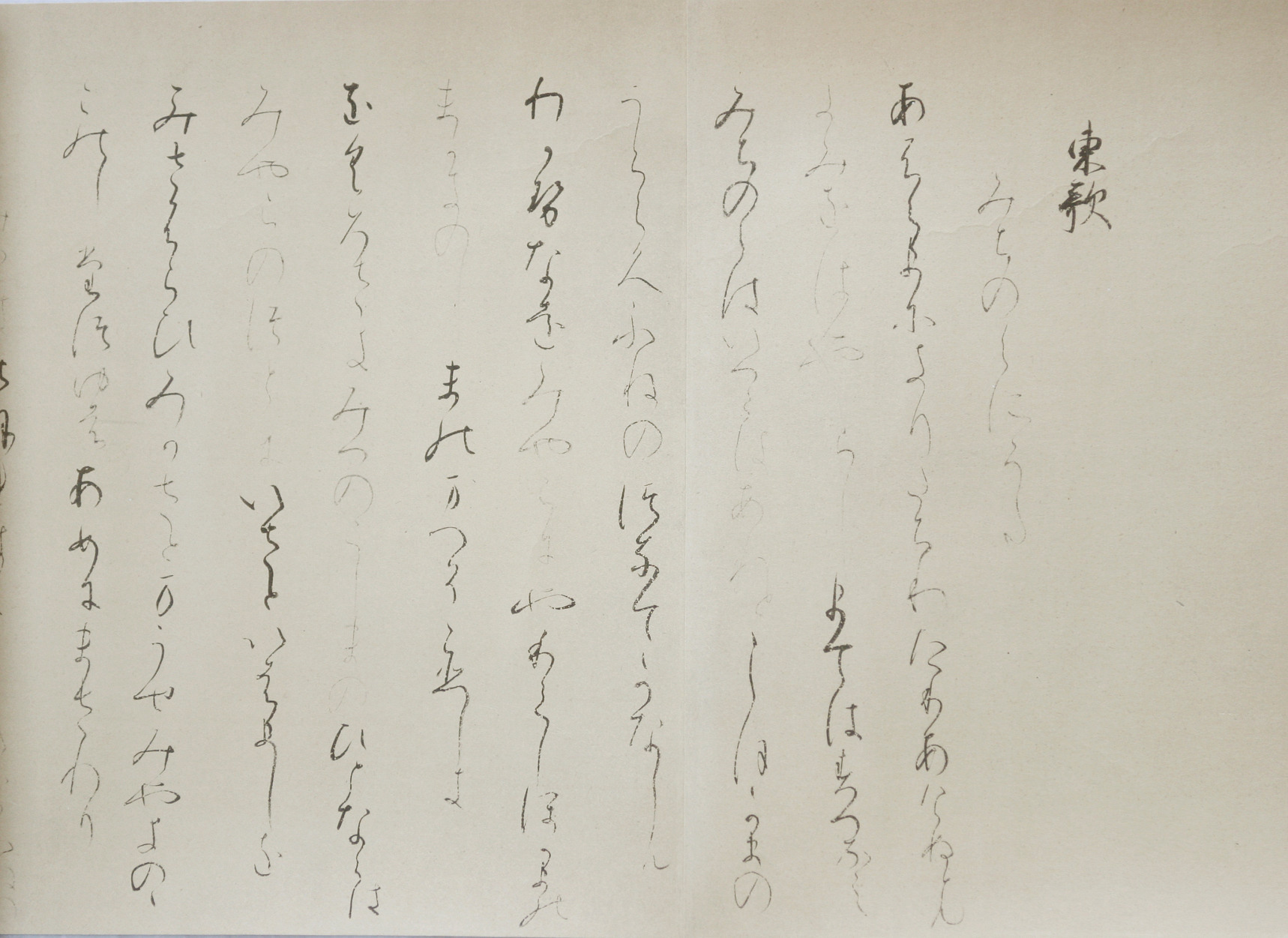 A part of “Collected Japanese Poems of Ancient and Modern Times” (Kokin Wakashū), Kōya edition, volume 20th , one handscroll, 25.5cm, 2.6m long (total). ink on mica decorated paper, About ACE 1050, Heian period, in Kochi Tosa Yamauchi Family Treasury and Archives, Kochi, Japan